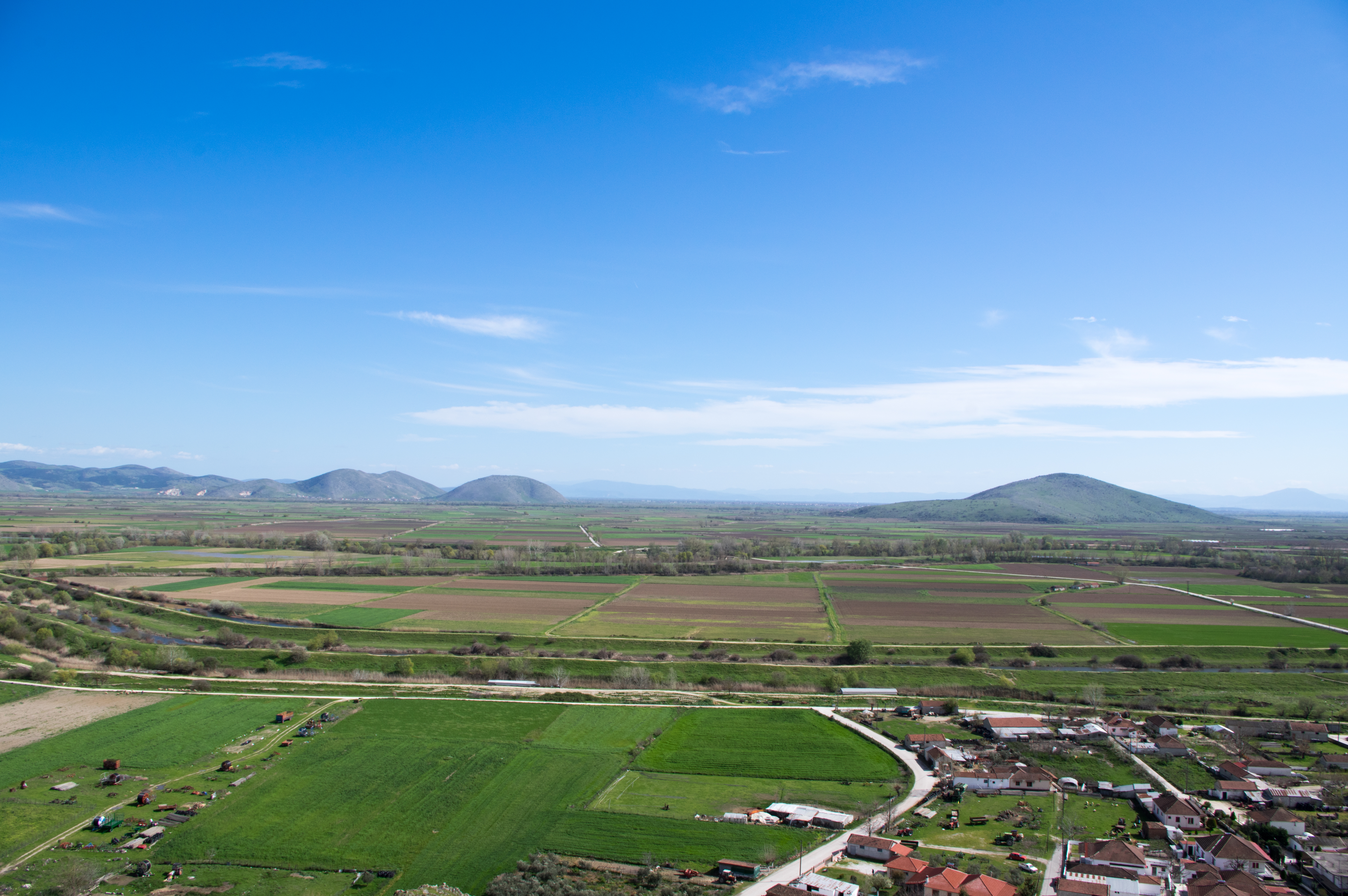 The Kambos plain, ancient Histiaeotis, as seen from Klokotos.